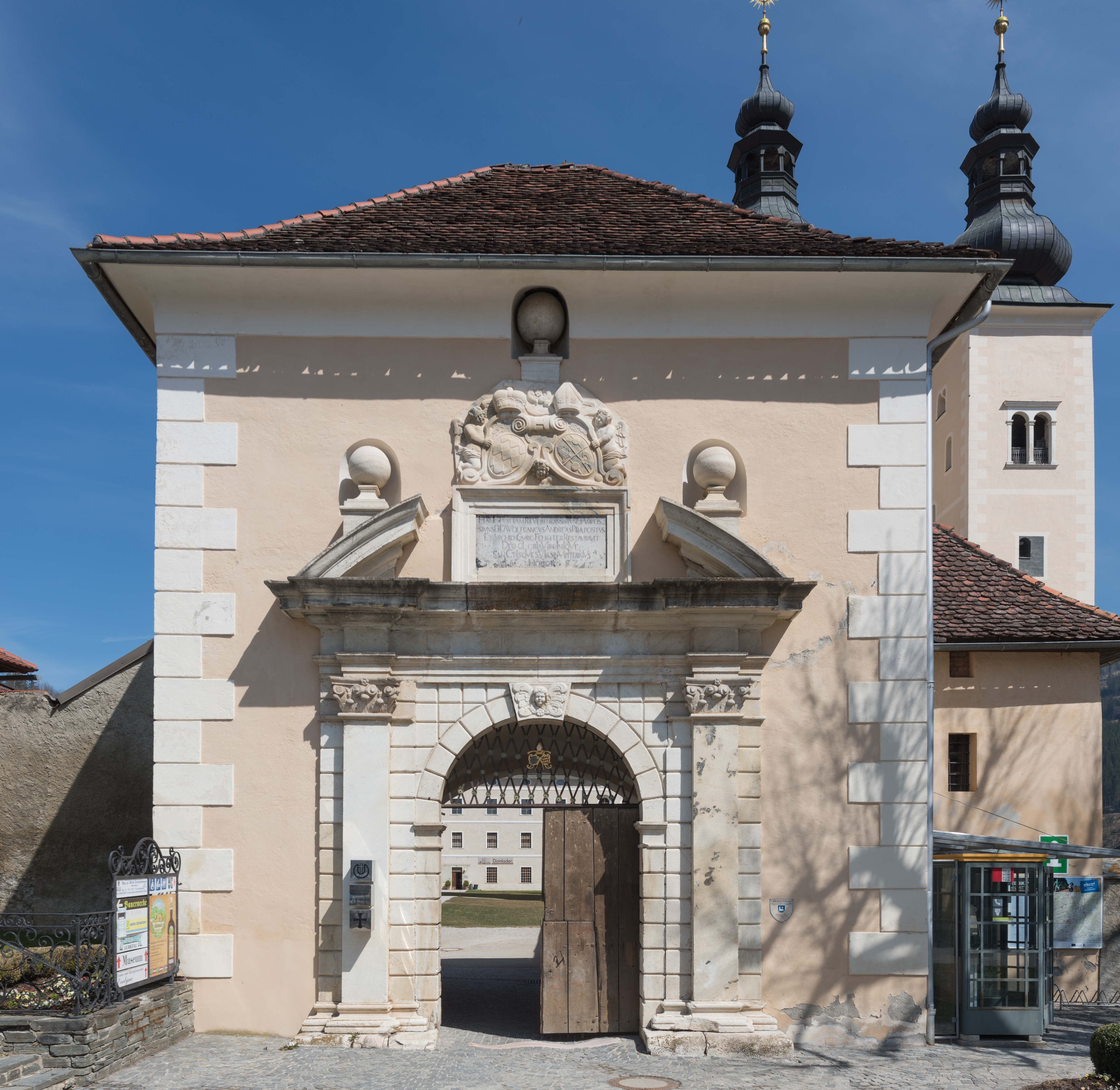 Western portal to the yard of Gurk Monastery, market town Gurk, district Sankt Veit an der Glan, Carinthia, Austria, EU